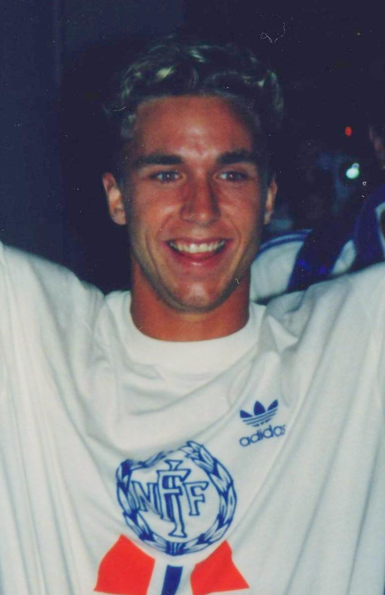 Steinar Hoen, European Champion 1994